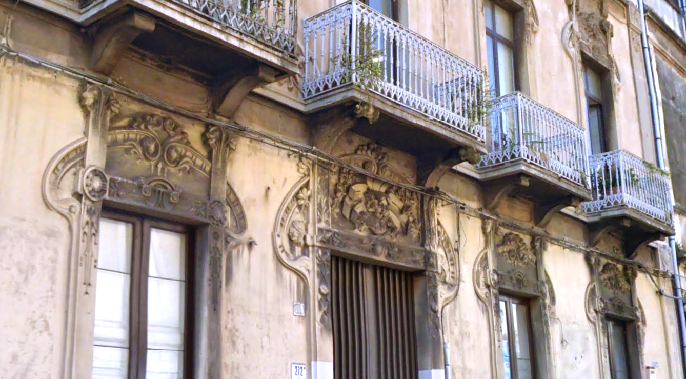 Palazzo Marano, Via Umberto I, 272, Catania, arch. Tommaso Malerba (1)